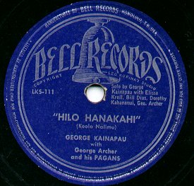 Hawaiian Bell Records label, for Bell Records article.